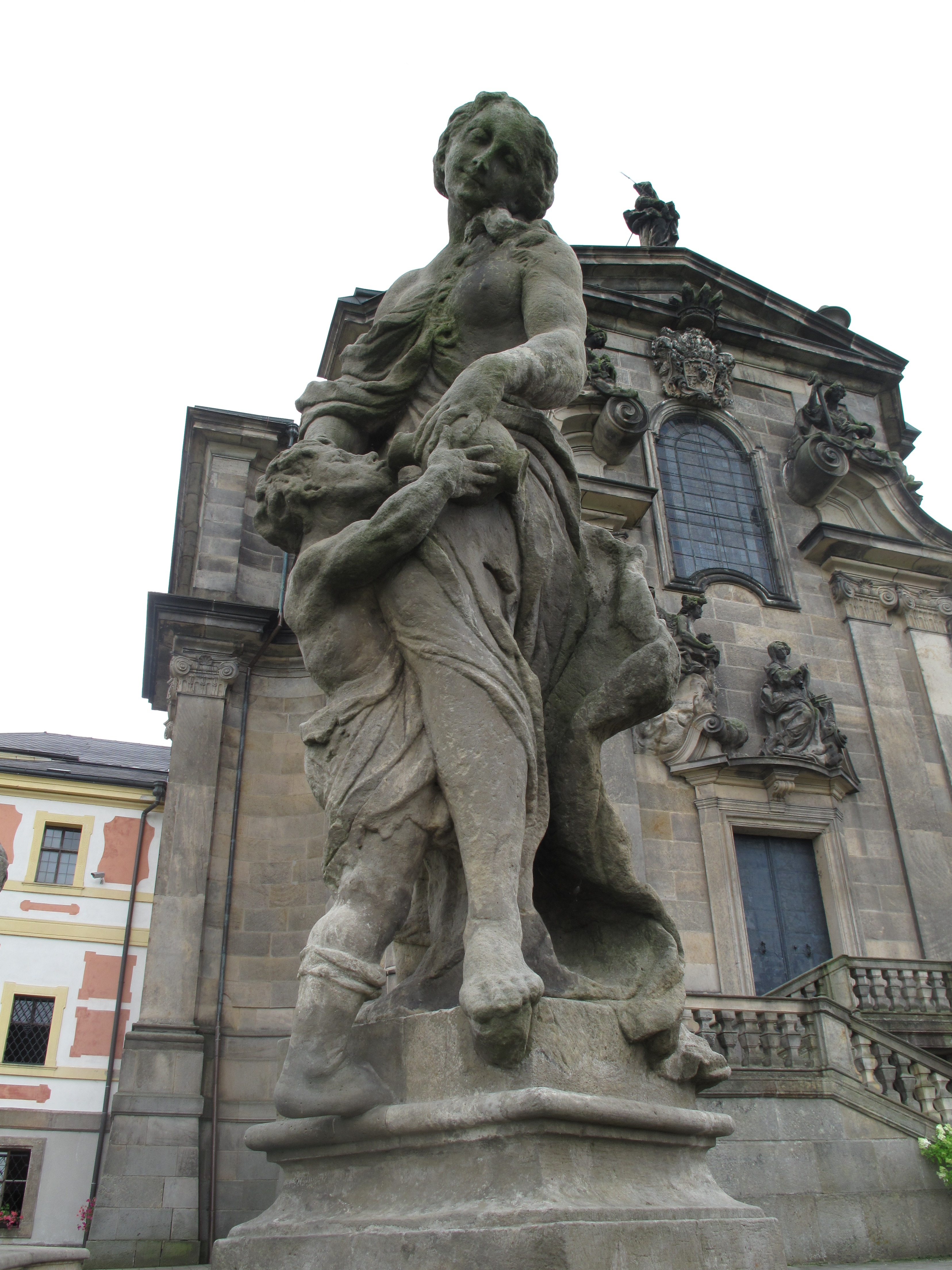 Allegory of "Blessed are the merciful: for they will be shown mercy." by Matthias Bernard Braun.